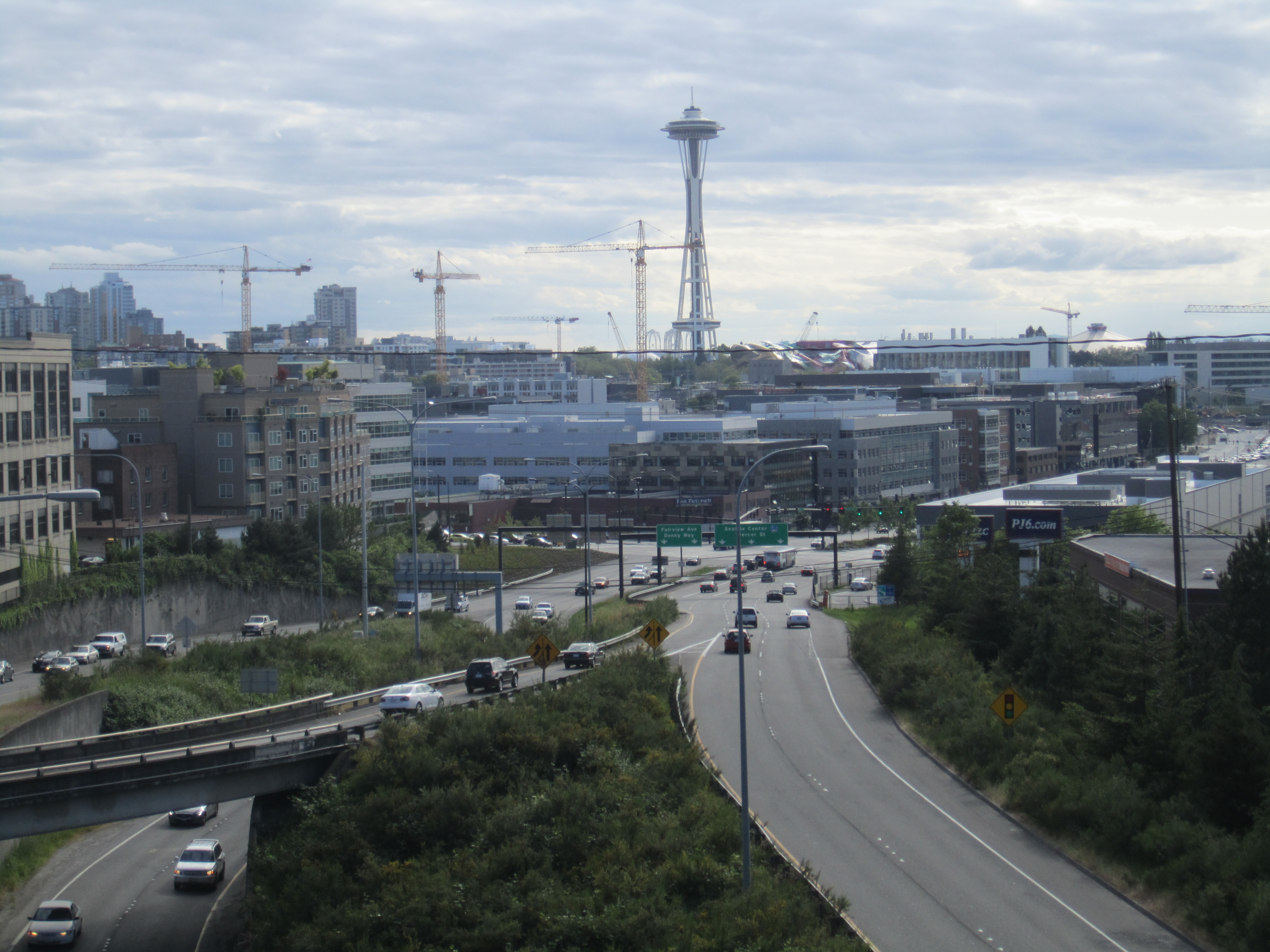 Mercer Street and the Space Needle, viewed from the Lakeview Boulevard overpass.